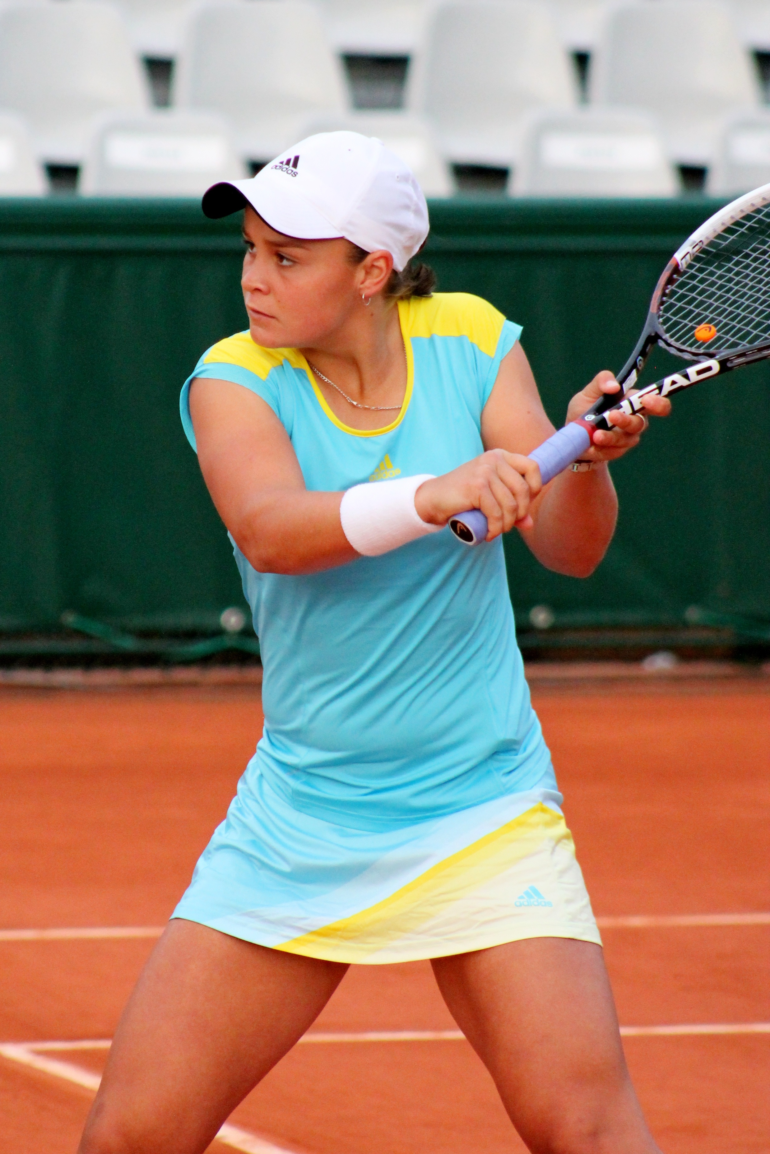 Barty RG13 (9)